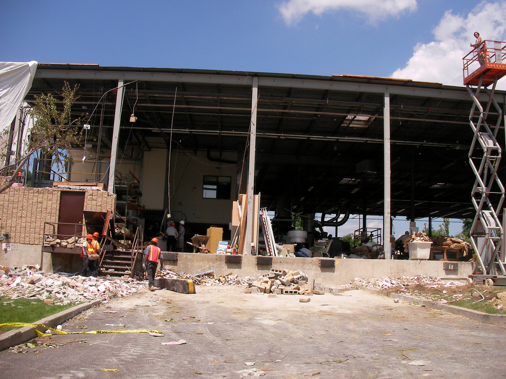 Damage to California Closets